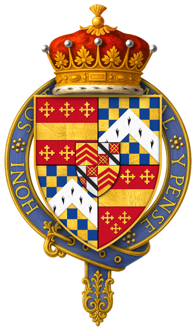 Coat of Arms of Sir Richard de Beauchamp, 13th Earl of Warwick, KG HOPE, W. H. St. John, The Stall Plates of the Knights of the Order of the Garter 1348 – 1485: A Series of Ninety Full-Sized Coloured Facsimiles with Descriptive Notes and Historical Introductions, Westminster: Archibald Constable and Company LTD, 1901. “ Sir Richard Beauchamp, Earl of Warwick… The arms are quarterly: 1 and 4, gules a fess and six cross-crosslets gold (for Beauchamp); 2 and 3, checky gold and azure a chevron ermine (for Newburgh); with an escutcheon of pretence quarterly: 1 and 4, gold three chevrons gules (for Clare); 2 and 3, quarterly silver and gules, the gules fretty gold, a bend sable (for Despencer). ”